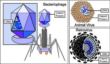 Virus types